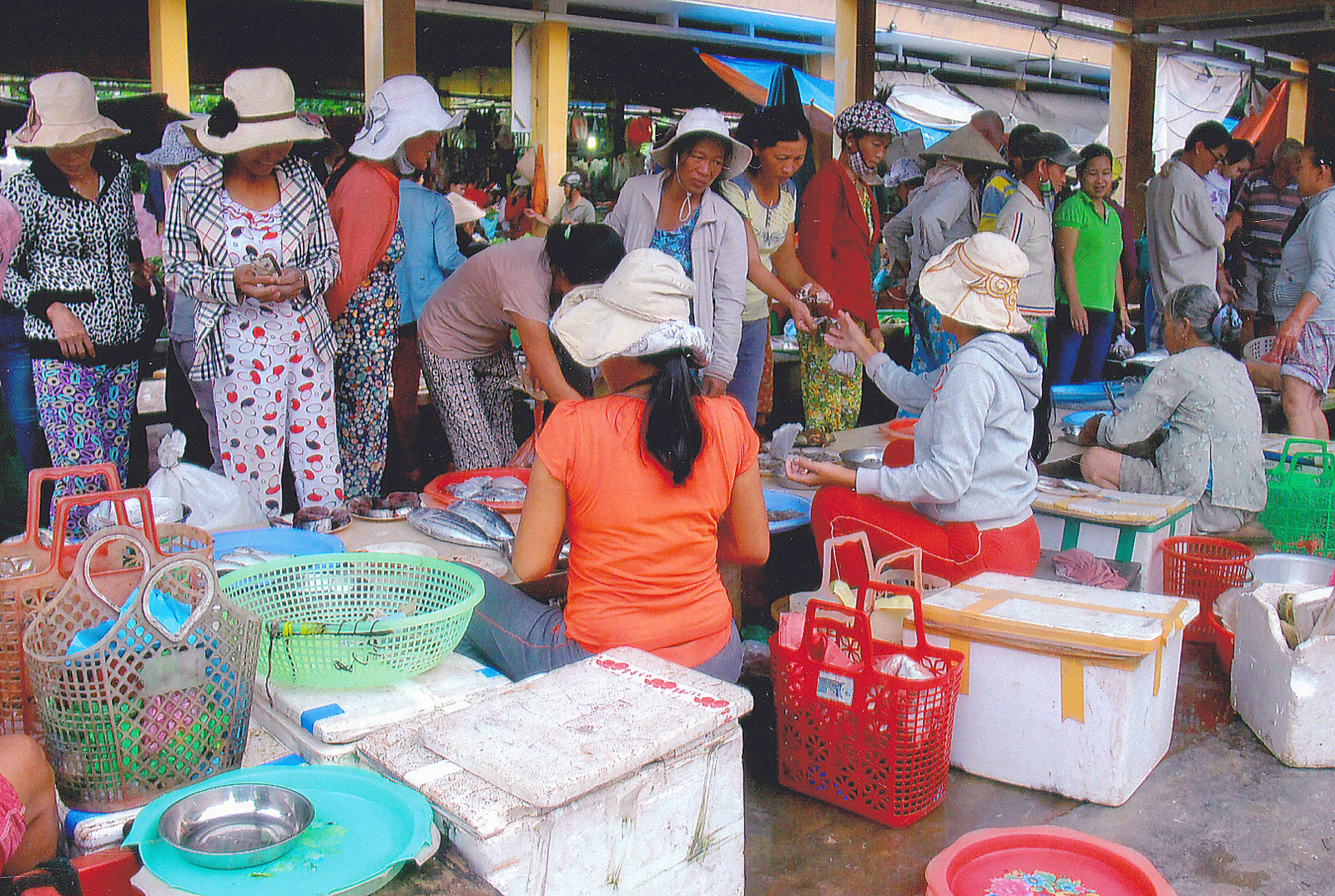 Sitting market women and busy on market Vietnam